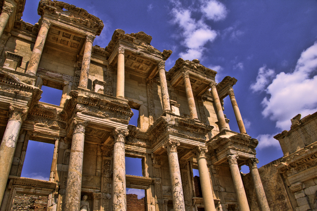 Ephesos, Turkey HDR